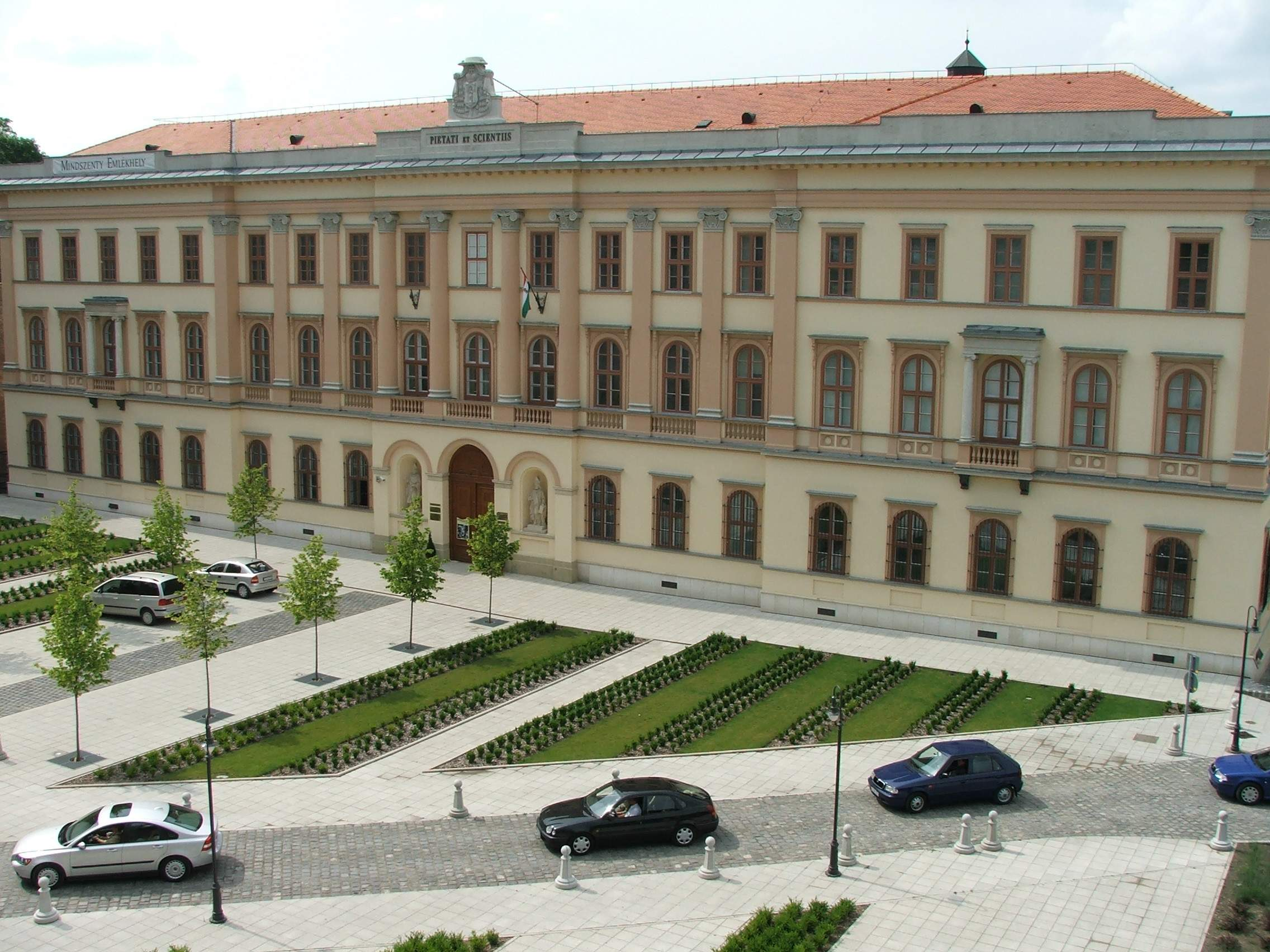 The old seminary in Esztergom after the renovations in 2006. This is a photo of a monument in Hungary, Identifier: 6241